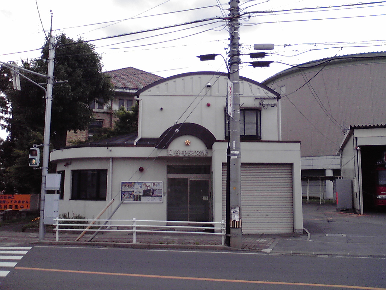 Okaya Central Police Box.